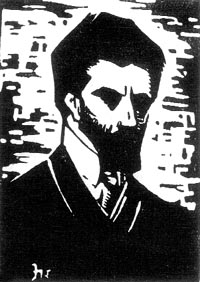 Jerzy Hulewicz. Autoportret